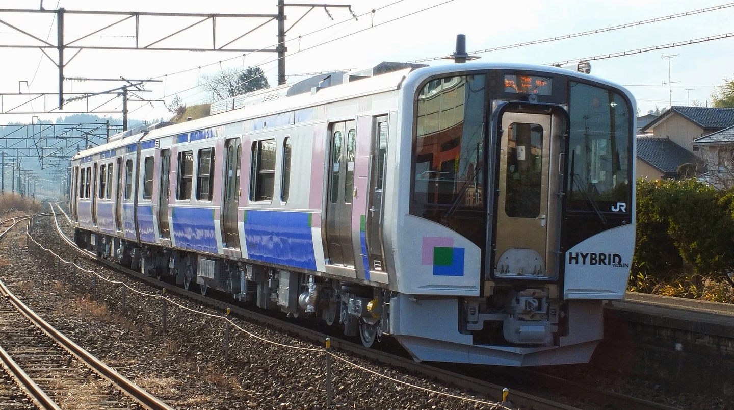 JR East HB-E210 series hybrid diesel/battery multiple unit C-2 passing through Shinainuma Station on a test run